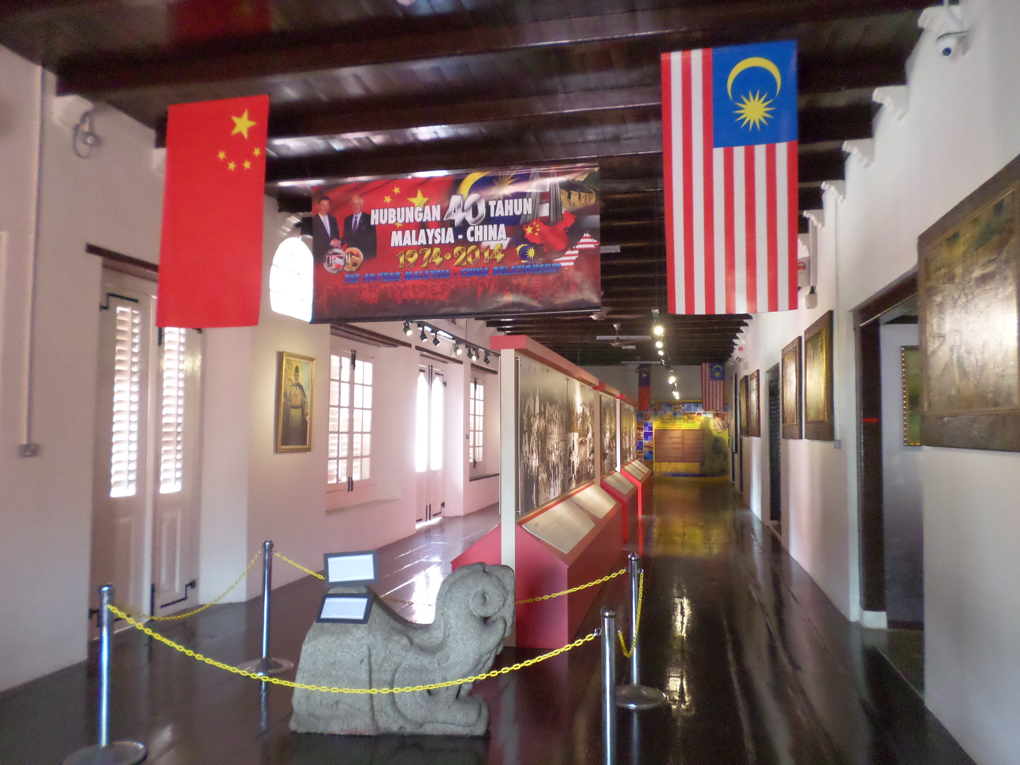 History and Ethnography Museum, Stadthuys, Malacca City, Malacca, MalaysiaBahasa Melayu: Muzium Sejarah dan Ethnografi, Stadthuys, Bandaraya Melaka, Melaka, Malaysia